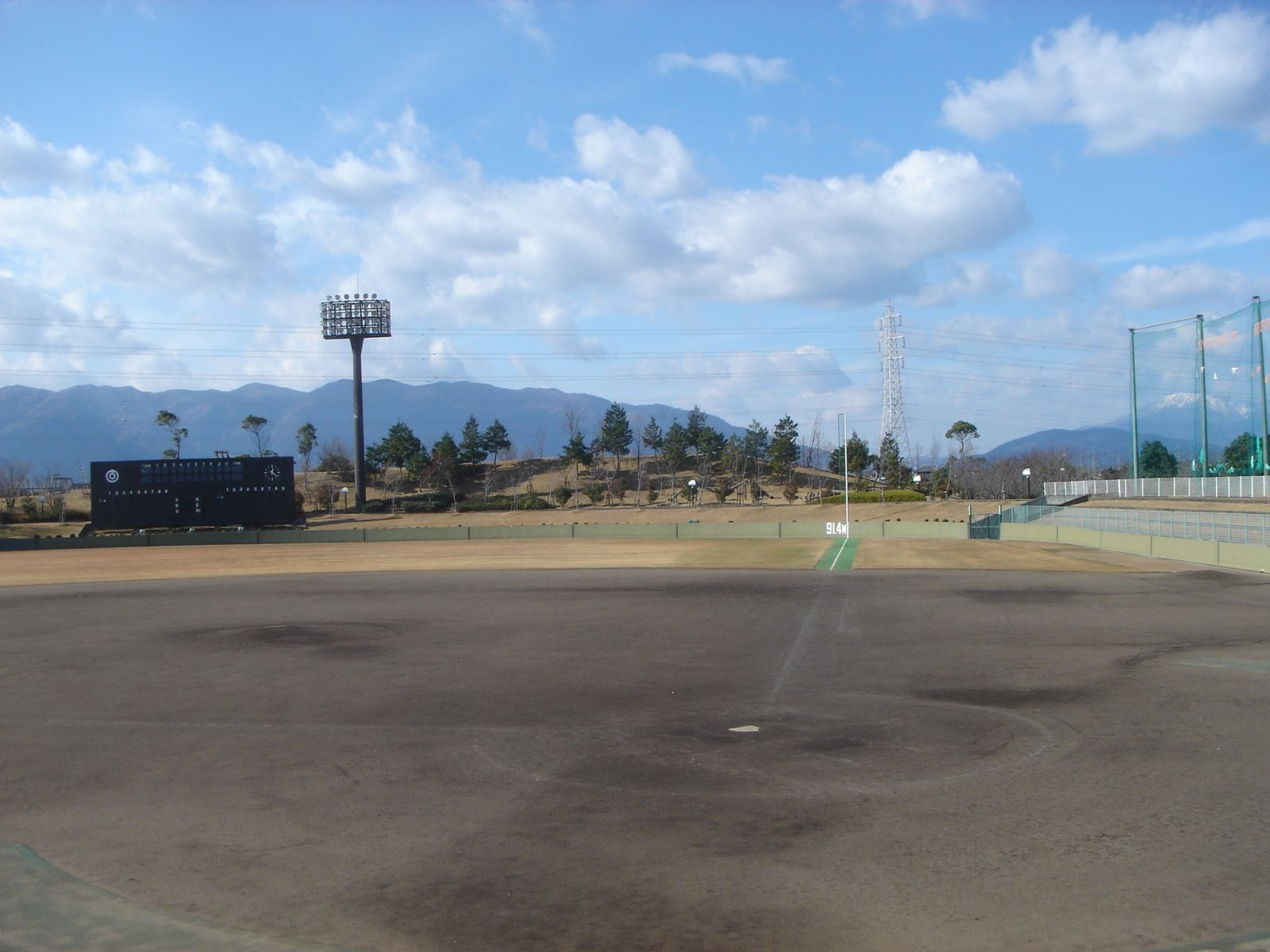 Wanouchi Apollon Stadium(輪之内アポロンスタジアム）,Wanouchi,Gifu,Japan(岐阜県輪之内町)で撮影。